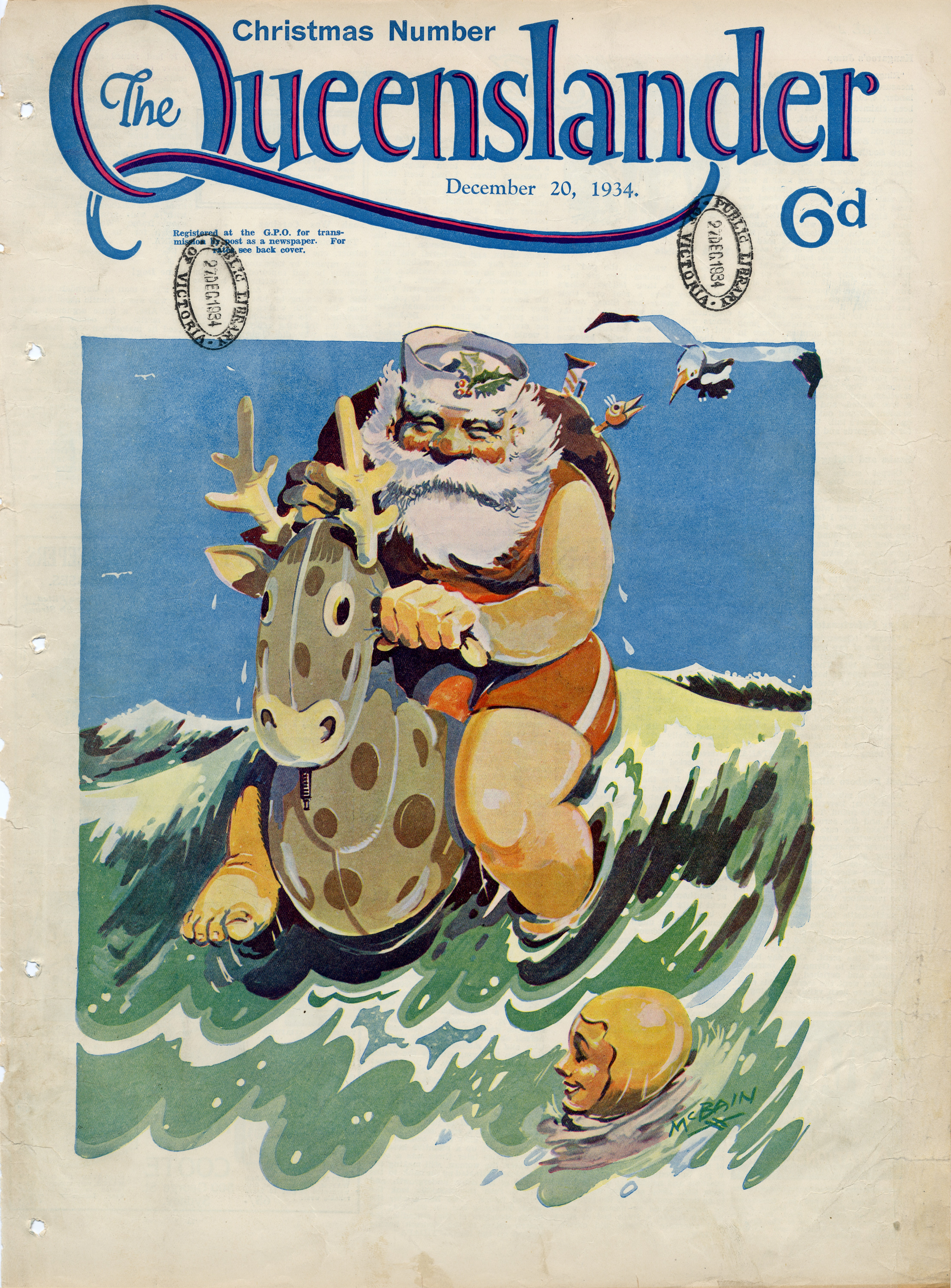 Creator: McBain Location:Queensland Description:Special Christmas issue featuring an front cover illustration of Santa Claus on a reindeer, surfing a wave. View this page at the State Library of Queensland Information about State Library of Queensland’s collection: You are free to use this image without permission. Please attribute State Library of Queensland.